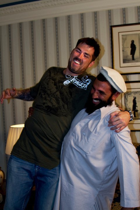 luttrell e gulab khan nel 2010